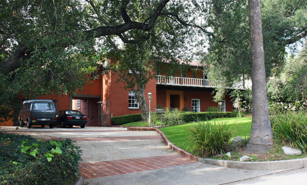 The house used on the Los Angeles set of Obsessed as Derek and Sharon Charles' family home.